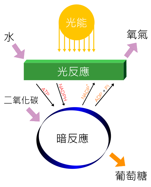 Photosynthesis Overview